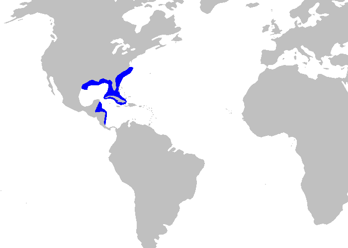 Distribution map for Galeus arae